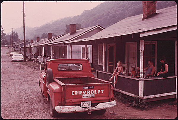 Company houses in Brookside, Kentucky, USA, photographed in June 1974 during the Brookside Mine Strike. Caption: "ROW OF MINERS' HOMES IN THE BROOKSIDE MINE COMPANY TOWN OF BROOKSIDE KENTUCKY, NEAR MIDDLESBORO. THE MINE, OWNED BY THE DUKE POWER COMPANY, WAS THE SCENE OF A PROTRACTED AND SOMETIMES VIOLENT STRIKE BETWEEN THE MINE AND THE UNITED MINE WORKERS UNION DURING 1974. THE STRIKE ENDED WHEN A MAN WAS SHOT AND KILLED ON THE PICKET LINE IN HARLAN COUNTY. THE HOME OF THE JERRY RAINEY FAMILY IS IN THE FOREGROUND. THEY WERE THREATENED WITH EVICTION DURING THE STRIKE, 06/1974." ARC identifier: 556542.